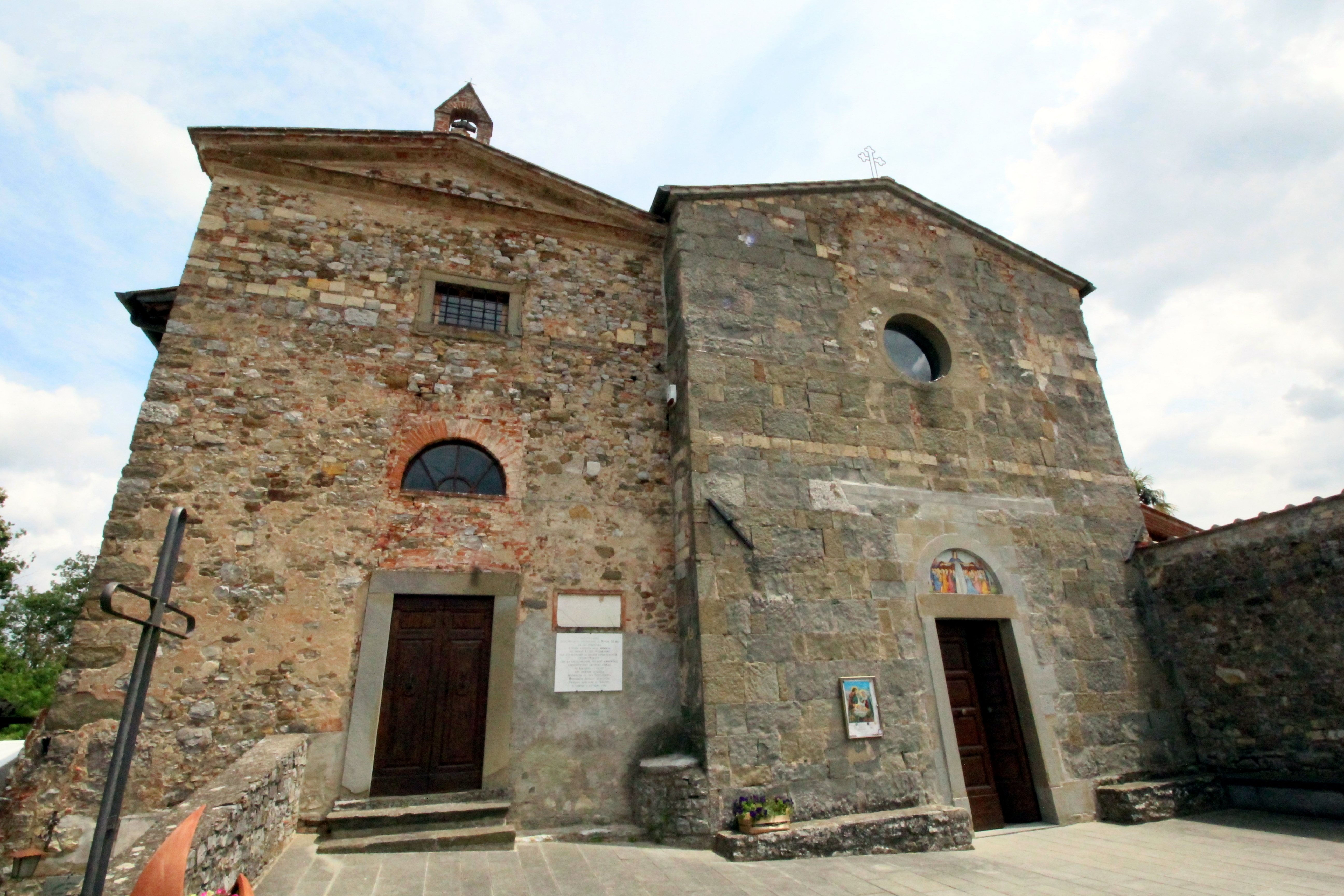 Churches Chiesa della Compagnia della Visitazione (left) and Chiesa dei Santi Tiburzio e Susanna (right) in Badia Agnano, hamlet of Bucine, Province of Arezzo, Tuscany, Italy